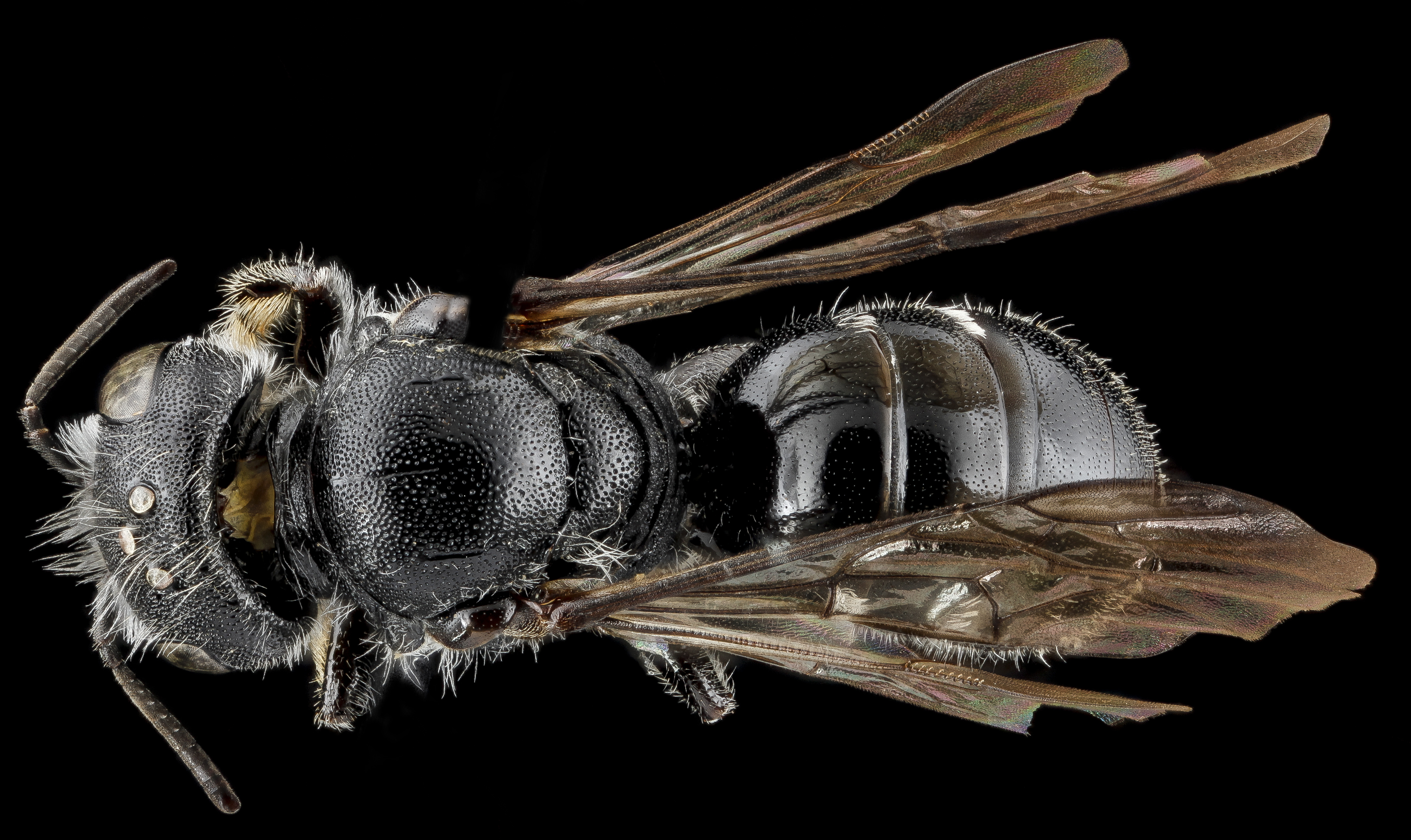 Richmond County, North Carolina